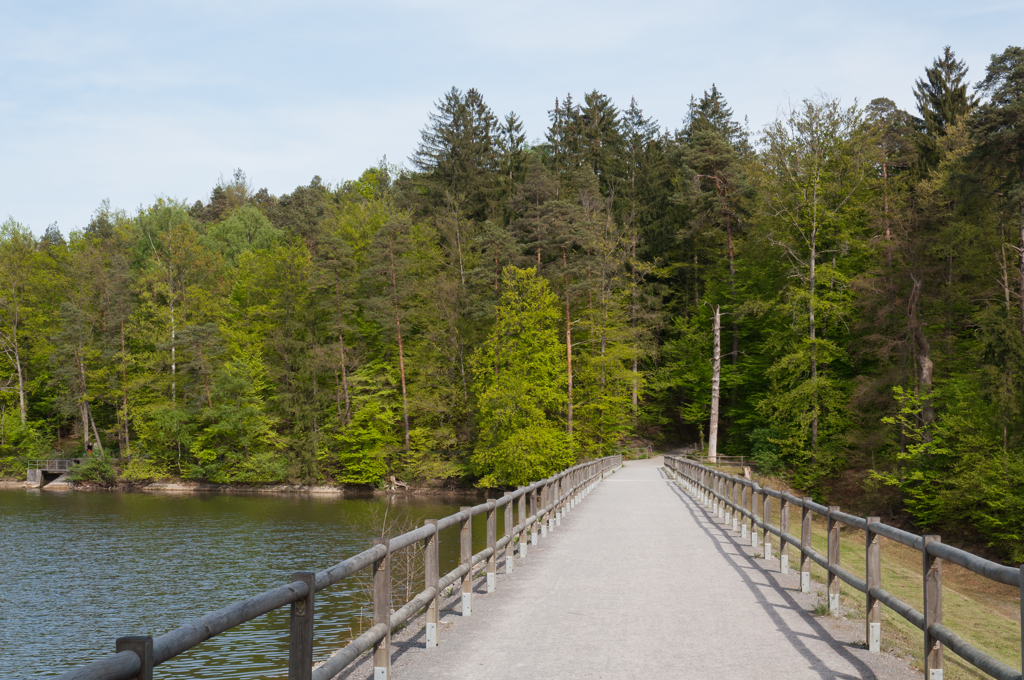 Path over the dam of the lake "Neuer See", natural reserve "Rotwildpark", Stuttgart, Germany.